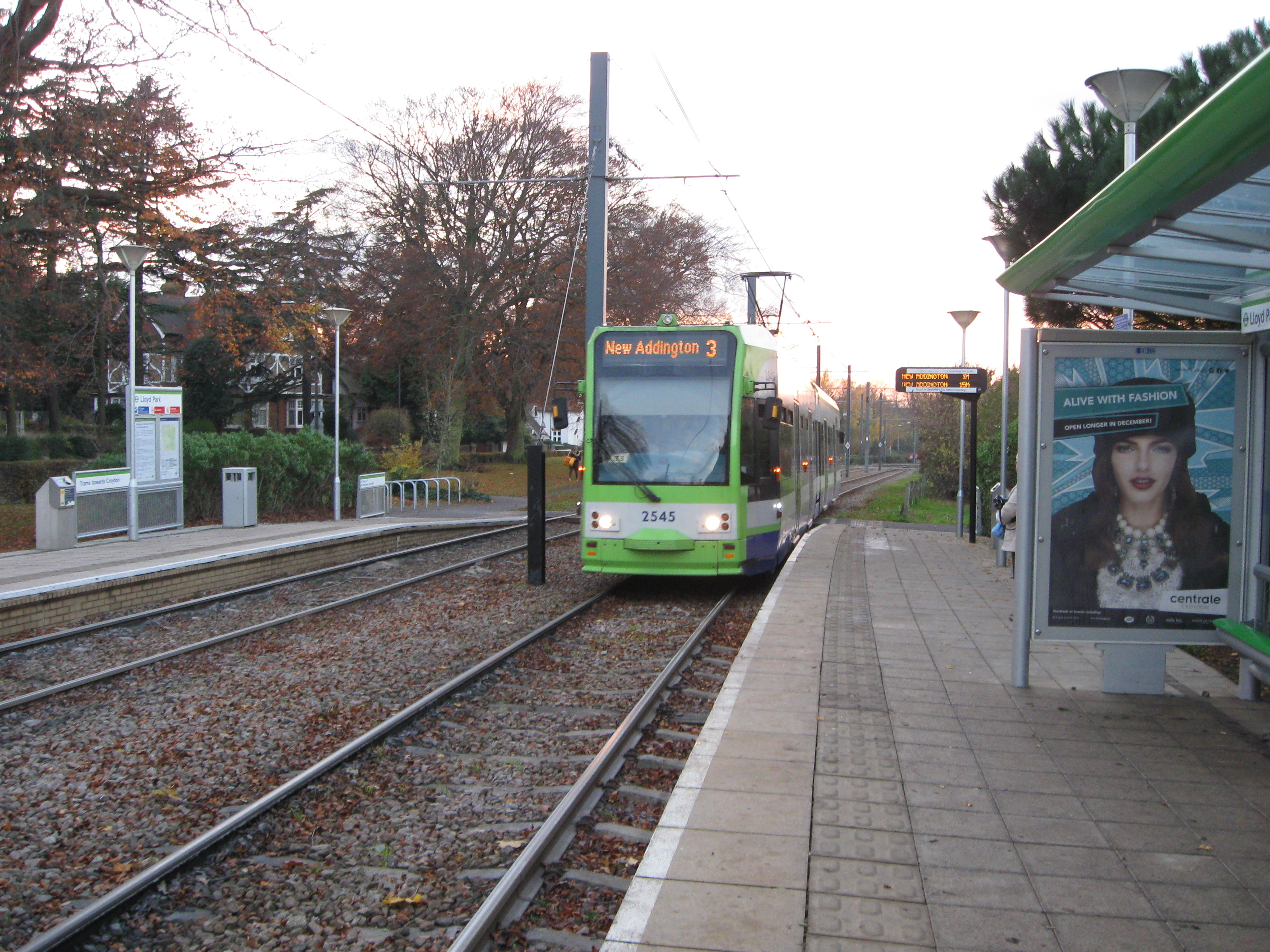 Tramlink tram No. 2545 arriving (eastbound) at Lloyd Park tramstop 1 December 2013